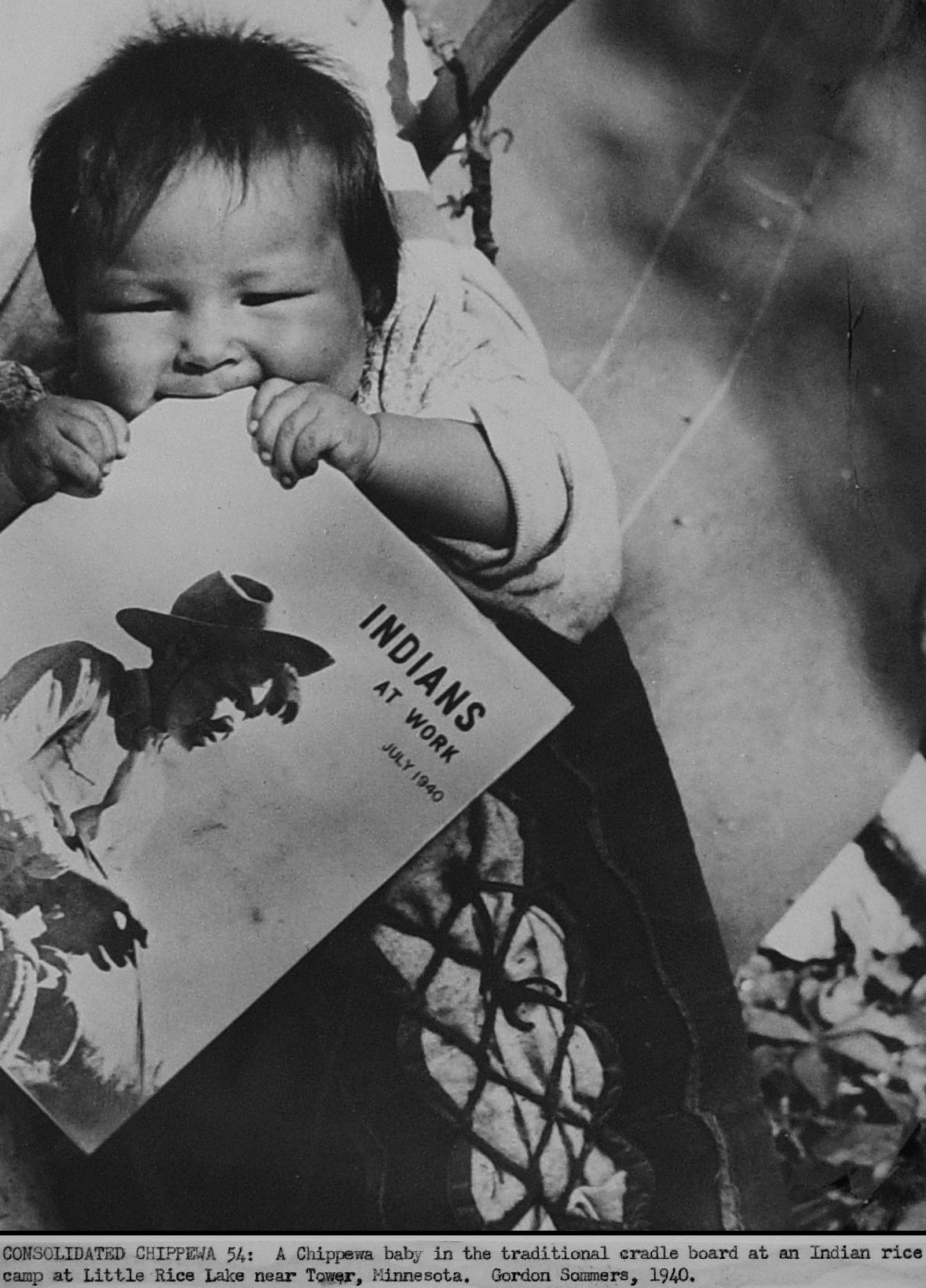 1940 US government publicity photo meant for newspaper and magazine publication: Minnesota farm worker scene of Chippewa baby (at a rice field) strapped to cradleboard while teething on an Office of Indian Affairs print magazine called "Indians at Work". Original typed period caption: CONSOLIDATED CHIPPEWA 54: A Chippewa baby in the traditional cradle board at Indian rice camp at Little Rice Lake near Tower, Minnesota. Gordon Sommers, 1940. Original period ink stamps: Credit U.S. Indian Service (manuscript additions: cross out of Credit U.S. and addition of illegible four-letter phrase at end) AFTER USE, PLEASE RETURN TO: F. W. LaRouche, Room 1326, Office of Indian Affairs, Washington, D.C. (all crossed out in manuscript and replaced with Information Div. 1126 ) Additional info